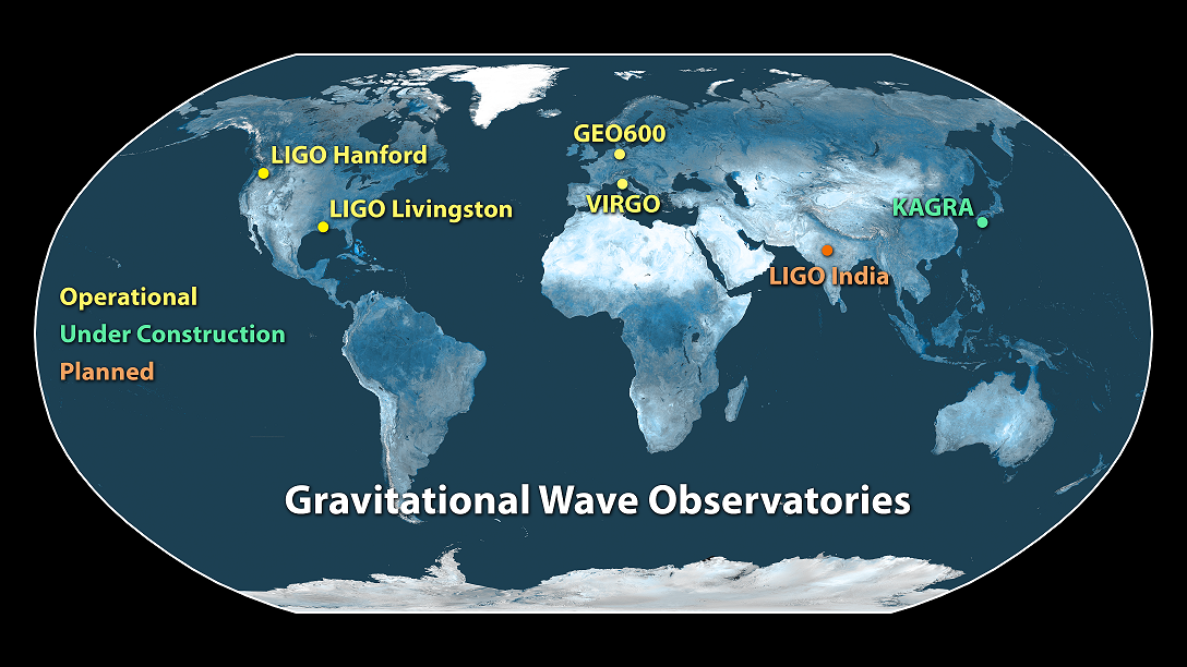 Current operating facilities in the global network include the twin LIGO detectors—in Hanford, Washington, and Livingston, Louisiana—and GEO600 in Germany. The Virgo detector in Italy and the Kamioka Gravitational Wave Detector (KAGRA) in Japan are undergoing upgrades and are expected to begin operations in 2016 and 2018, respectively. A sixth observatory is being planned in India. Having more gravitational-wave observatories around the globe helps scientists pin down the locations and sources of gravitational waves coming from space.